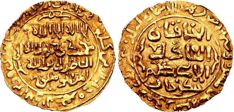 ISLAMIC, Mongols. Great Khans. Chingiz (Genghis). AH 602-624 / AD 1206-1227. AV Dinar (24mm, 3.36 g, 6h). Ghazna (Ghazni) mint. Dated AH 618 (AD 1221/2). Kalima and name of Abbasid caliph in four lines, floral ornament above and to left; Umayyad “Second Symbol” (al-Quran Sura 9:33) in outer margin / Name and titles of Chingiz Khan in four lines, floral ornament to left and right; mint formula and AH date in outer margin. Spengler 16-18; CNR XXI, 1 (Spring 1996), 245-30-35; Album 1964; ICV 1940; Triton XXI, lot 951 (same dies). Good VF. Well centered and struck. Overstruck on an uncertain undertype.